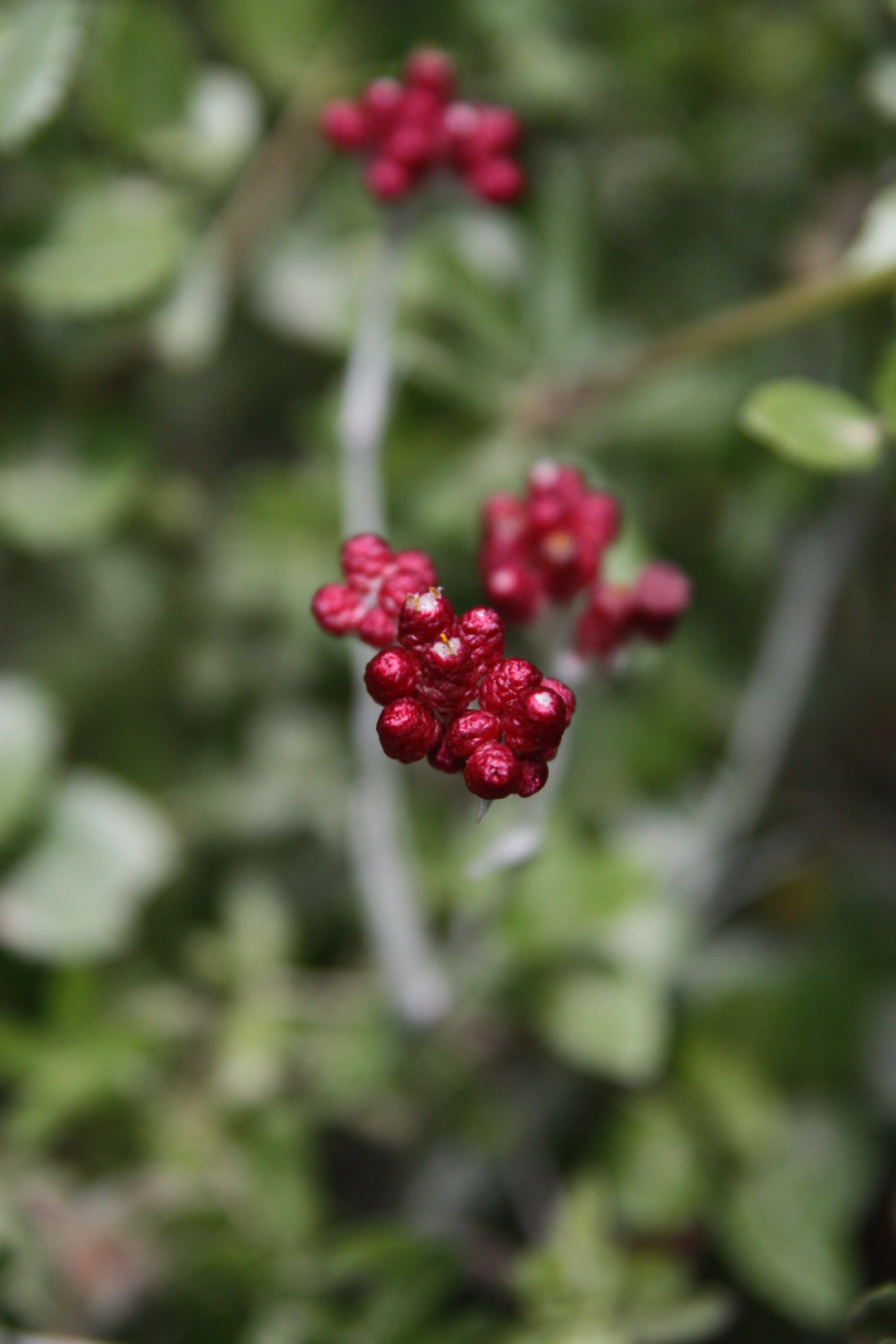 Mount Carmel